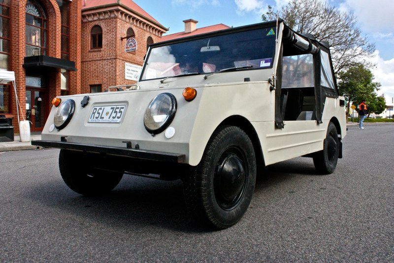 Volkswagen Country Buggy made in Victoria, Australia.